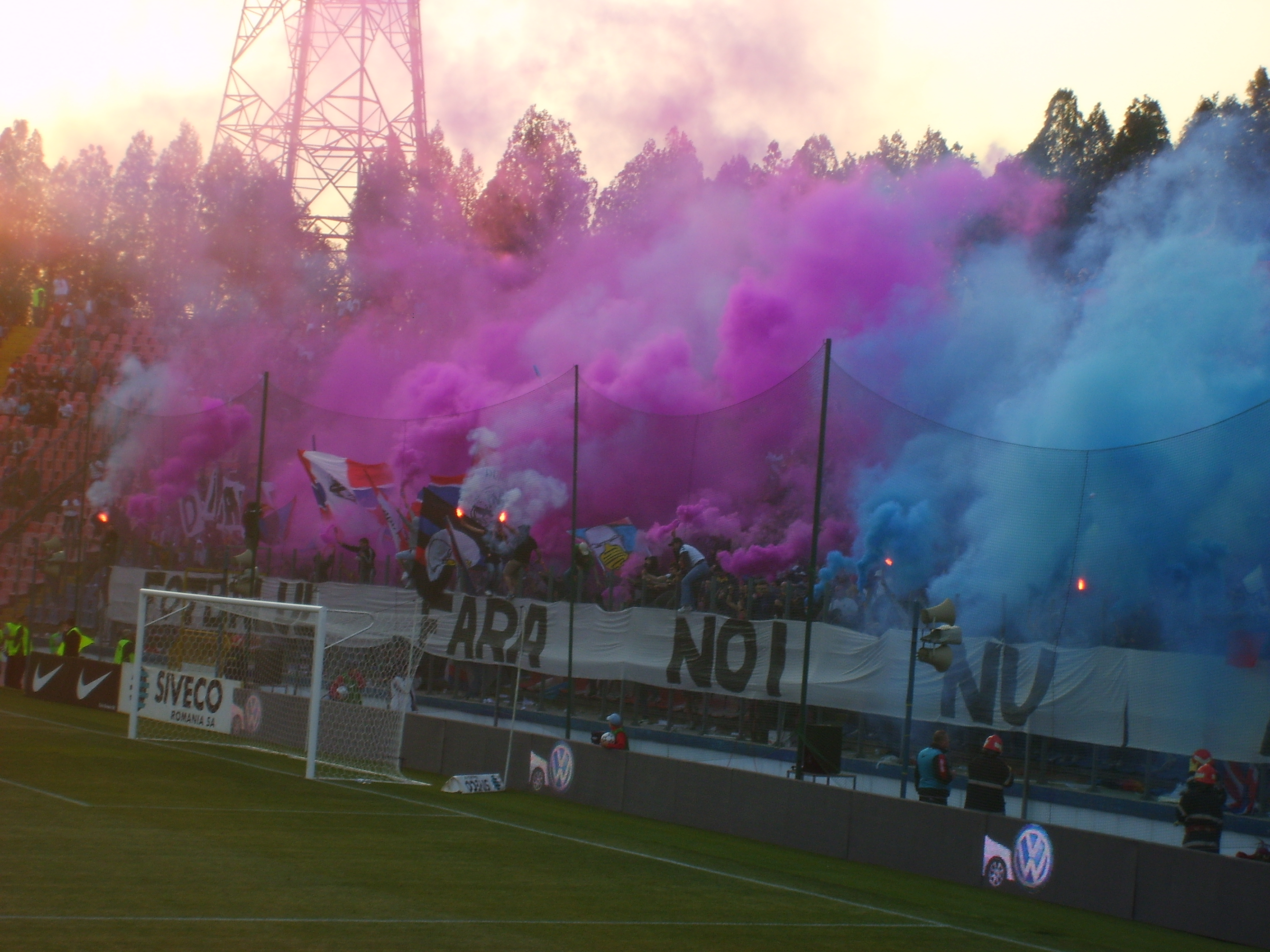 Steaua fans during a 2007 match with Dinamo. Aficionados del Steaua durante un partido frente a Dinamo